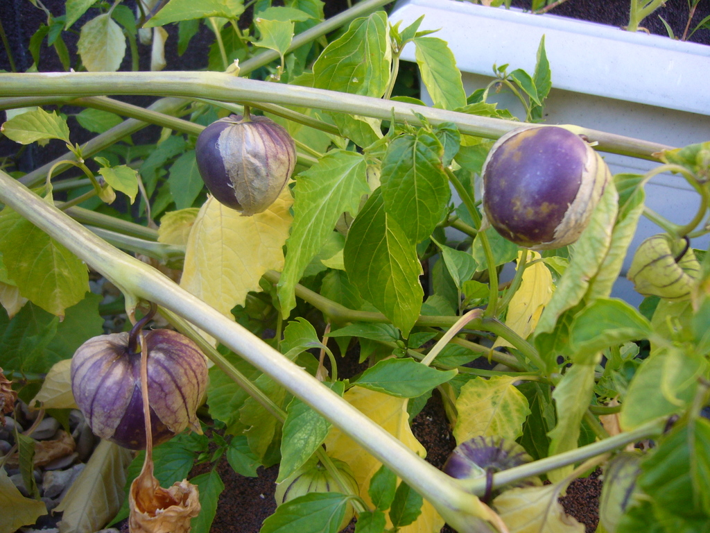 Physalis ixocarpa fruit